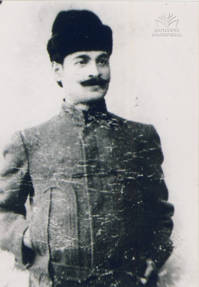 Evtropi Talakvadze